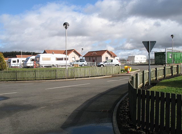 Thornton Wood Traveller's Site